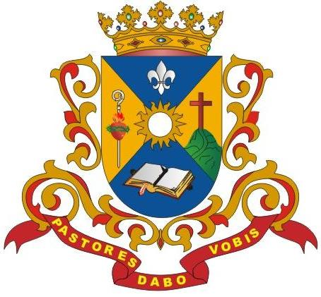 Coat the Seminary of Apostolic Administration St. John Vianney in Campos. The motto is "Pastores Dabo Vobis" (Vos give pastors), allusion to Jeremiah 3:15, which says "I will give you pastors according to mine heart, which shall feed you with knowledge and understanding." The timbre of the coat is the crown of Our Lady, indicating that the seminar was devoted to her. In the shield are the fleur-de-lis, symbol of purity and courage in converting the Heart of Jesus with a crosier, indicating that priestly vocations comes from Him, a book that represents the virtue of science to be acquired, and a cross on peak of a hill, representing Christ's sacrifice on the cross, which is renewed in the Holy Mass, the center of the life of the priest and seminary future.